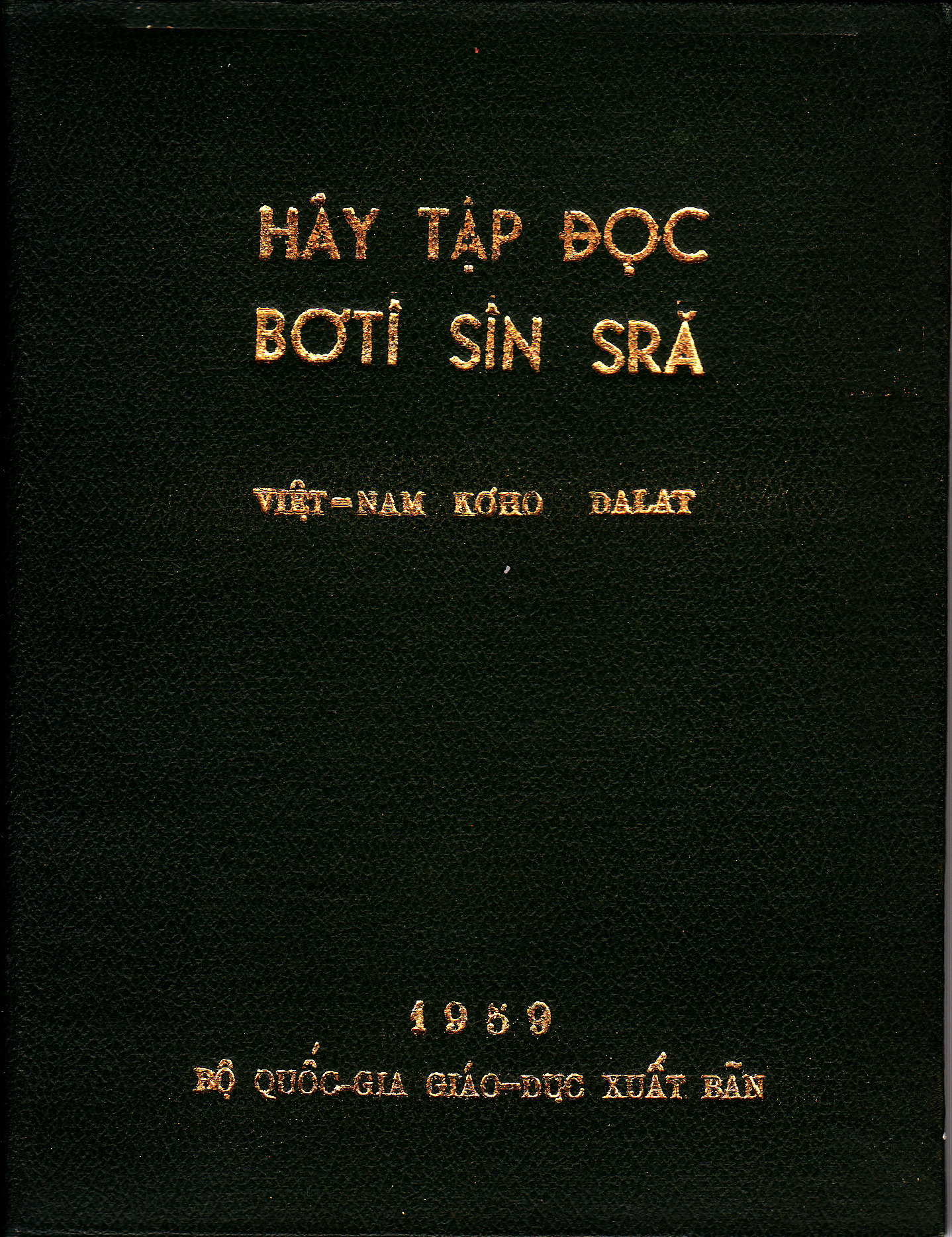 Cover of a Vietnamese-Koho reader